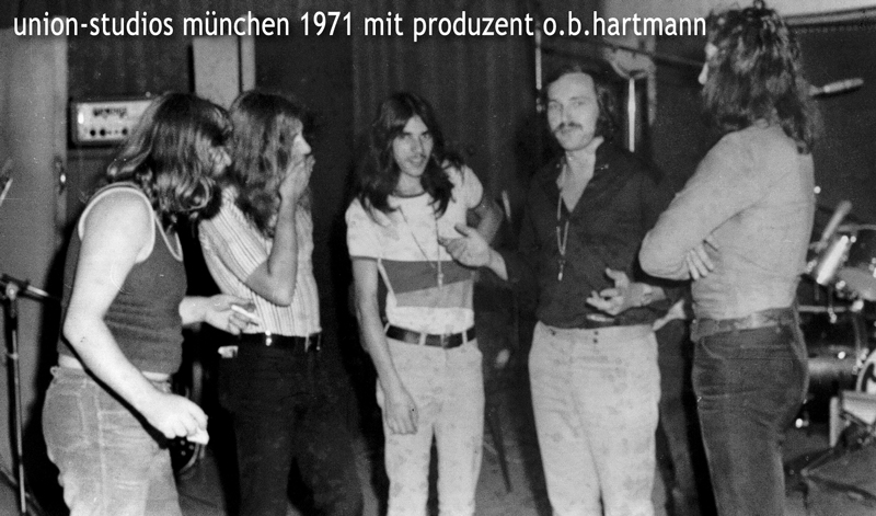 the german rock band "GIFT" with their producer O.B.HARTMANN in union-record-studios in munich.